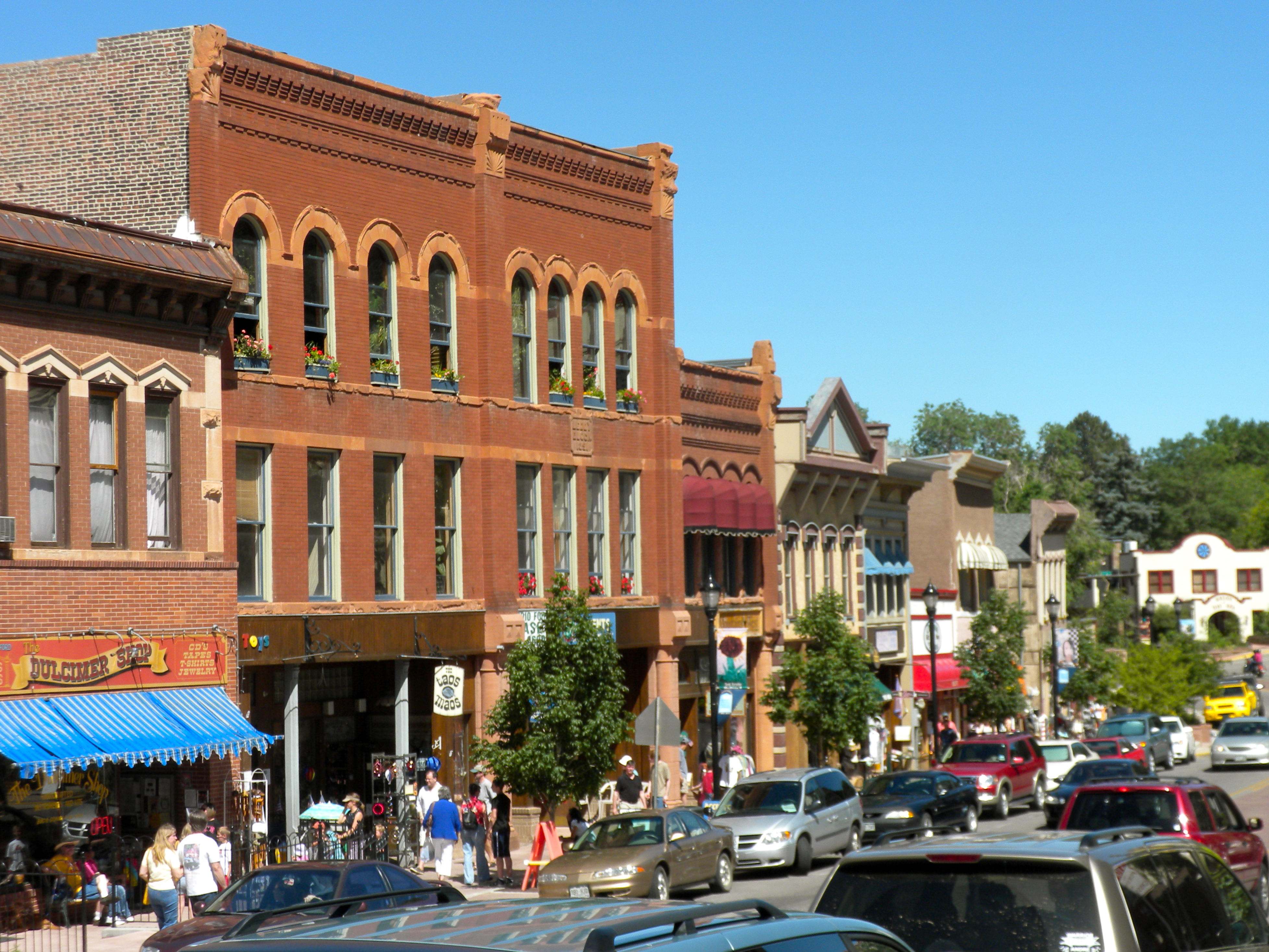 700 block of Manitou Avenue (north side - even numbers) in the Manitou Springs Historic District. The HD has been on the NRHP since October 7, 1983 and is roughly bounded by El Paso Boulevard, Ruxton Ave., U.S. Route 24, and Iron Mt. Ave., Manitou Springs, Colorado